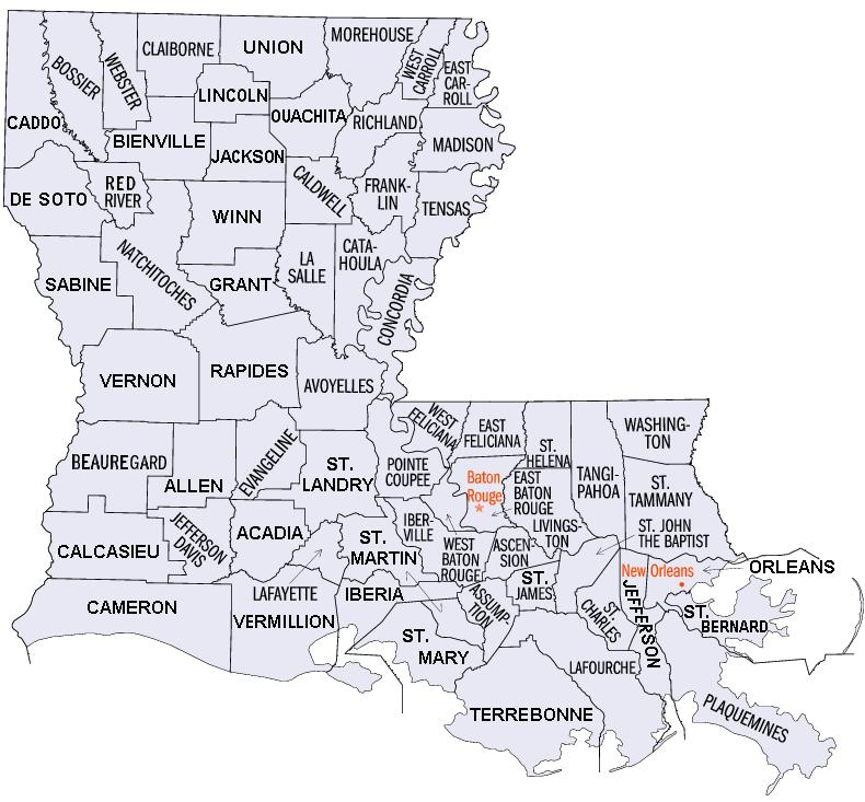 Map of Louisiana parishes (used in English wikipedia), with labels enlarged, including darker labels for parishes of New Orleans.